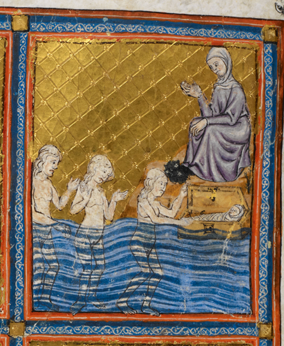 British Library MS Additional 27210 f. 9 Detail of a miniature of Moses' sister, Miriam seated on a hilltop watching the baby Moses, Pharaoh's daughter finding Moses (Ex. 2:4-6). Origin: Spain, N. E., Catalonia (Barcelona?)